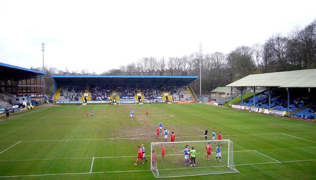 Halifax 0 Aldershot 0